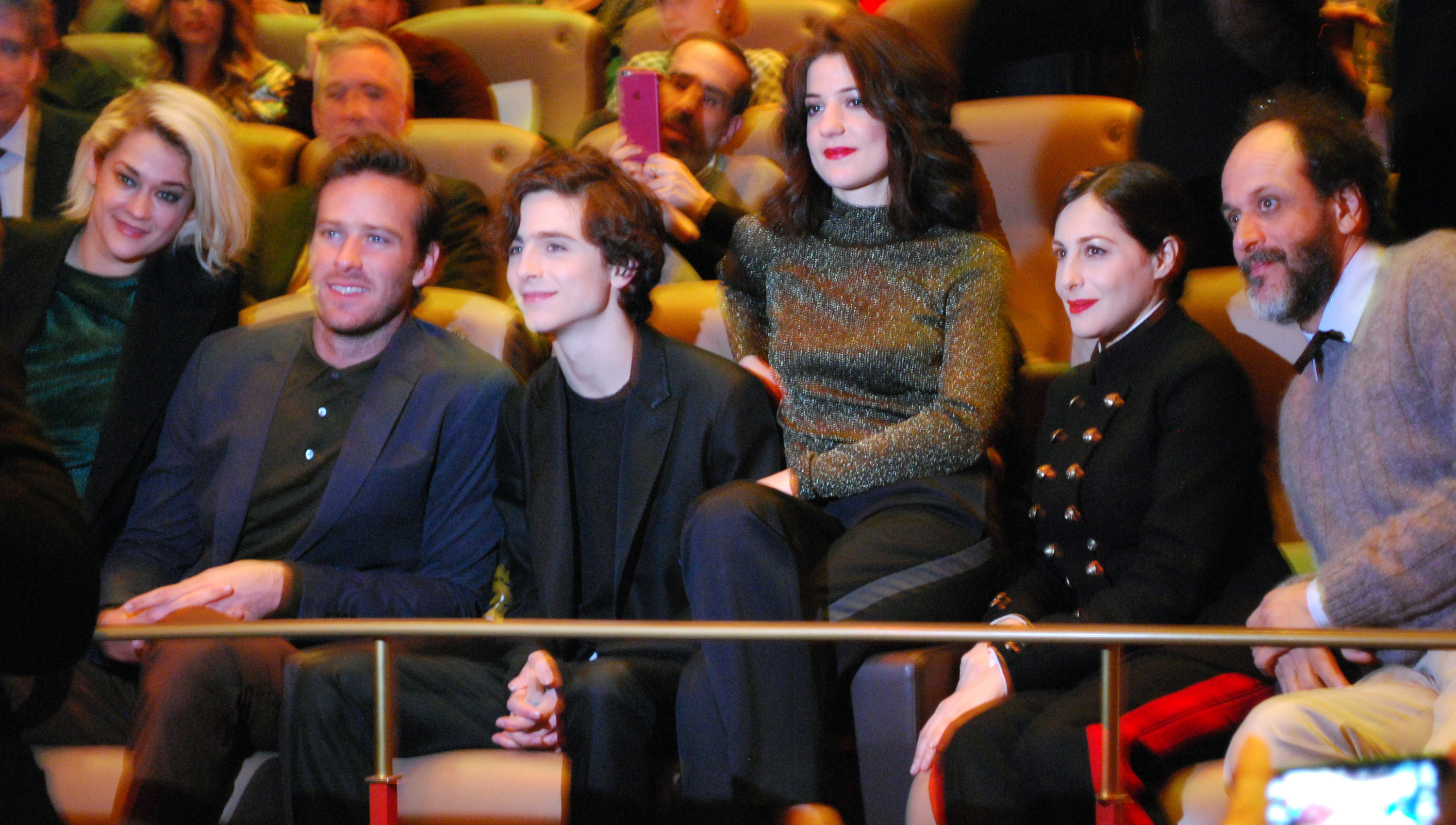 Showing Call Me By Your Name @Berlin Film Festival 2017